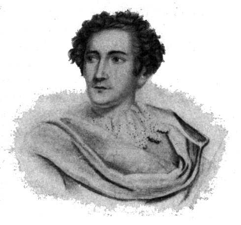 Nils Almlöf as Hamlet